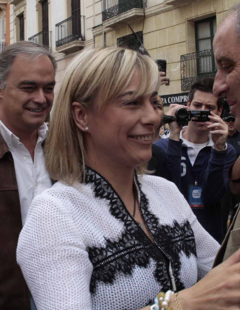 Spanish politicians Sonia Castedo and Francisco Camps